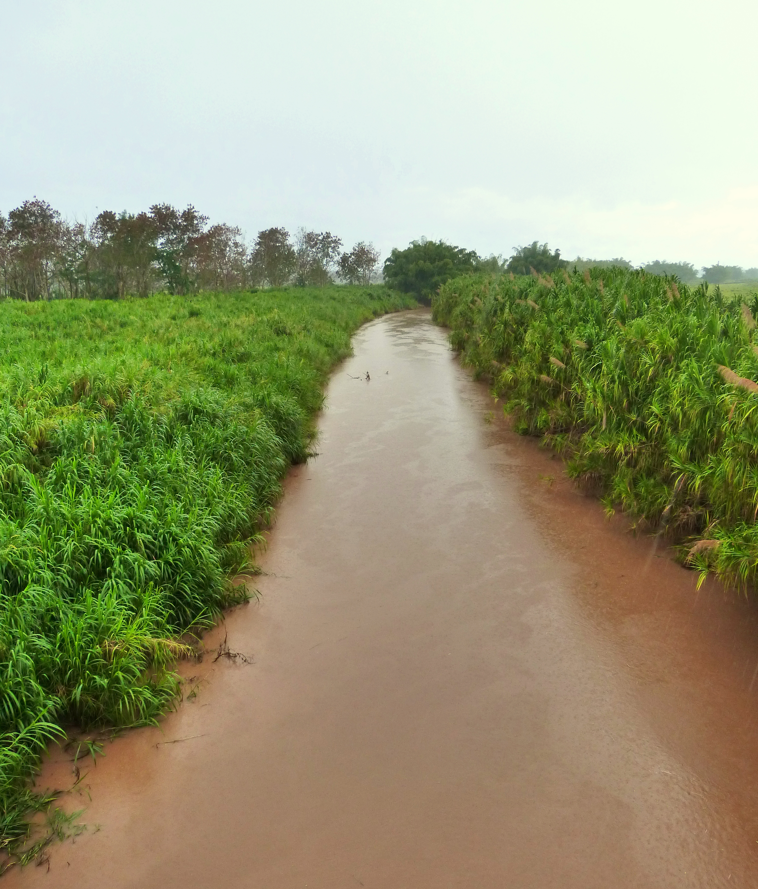 The Río Grande de Añasco at Puerto Rico Highway 2 on the boundary between Añasco (right) and Mayagüez (left) municipalities, Puerto Rico, swollen by rain.